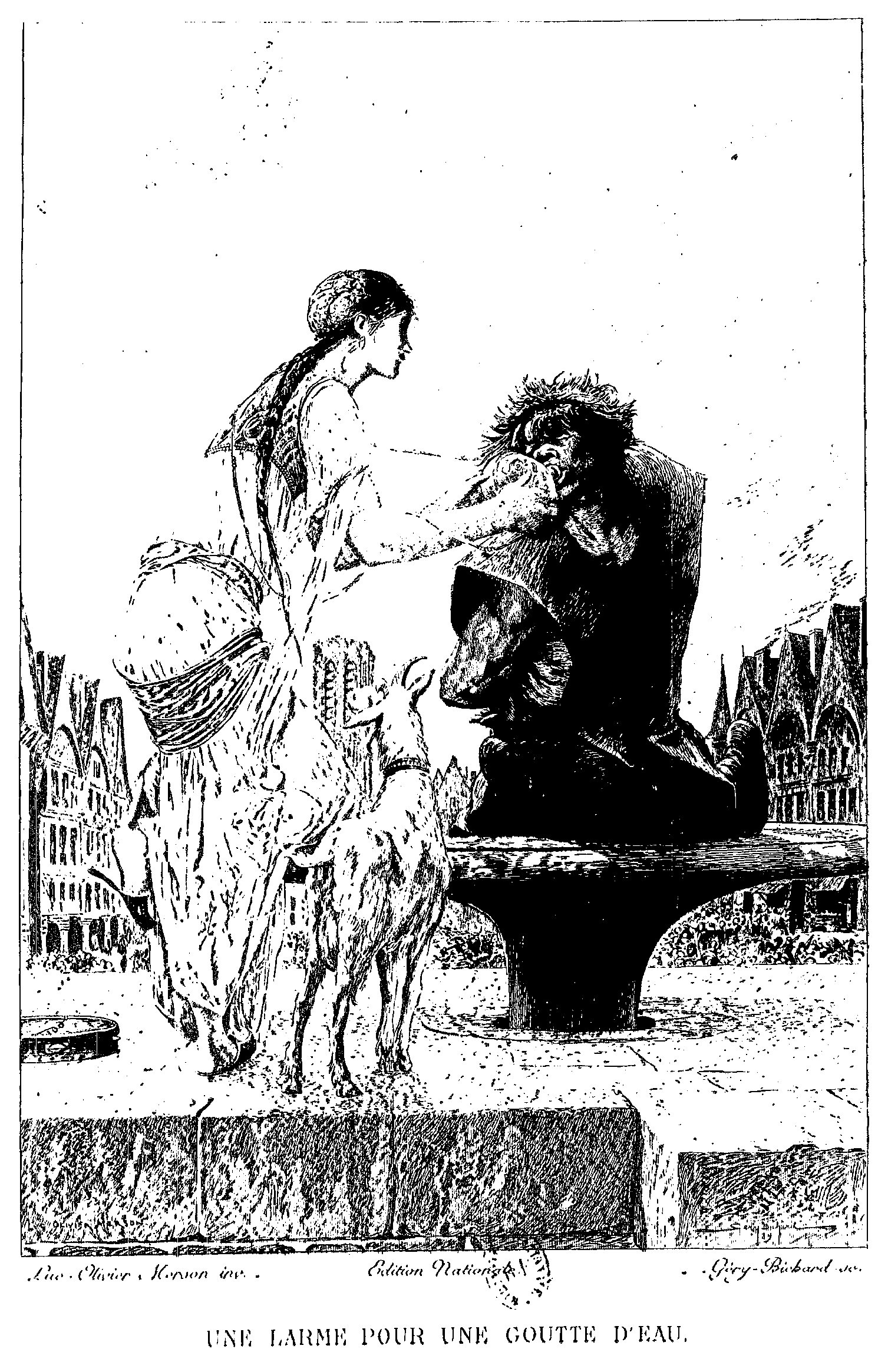 The illustration on page 364 in book 6 of Notre-Dame de Paris (The Hunchback of Notre Dame) by Victor Hugo, from the 1889 edition.